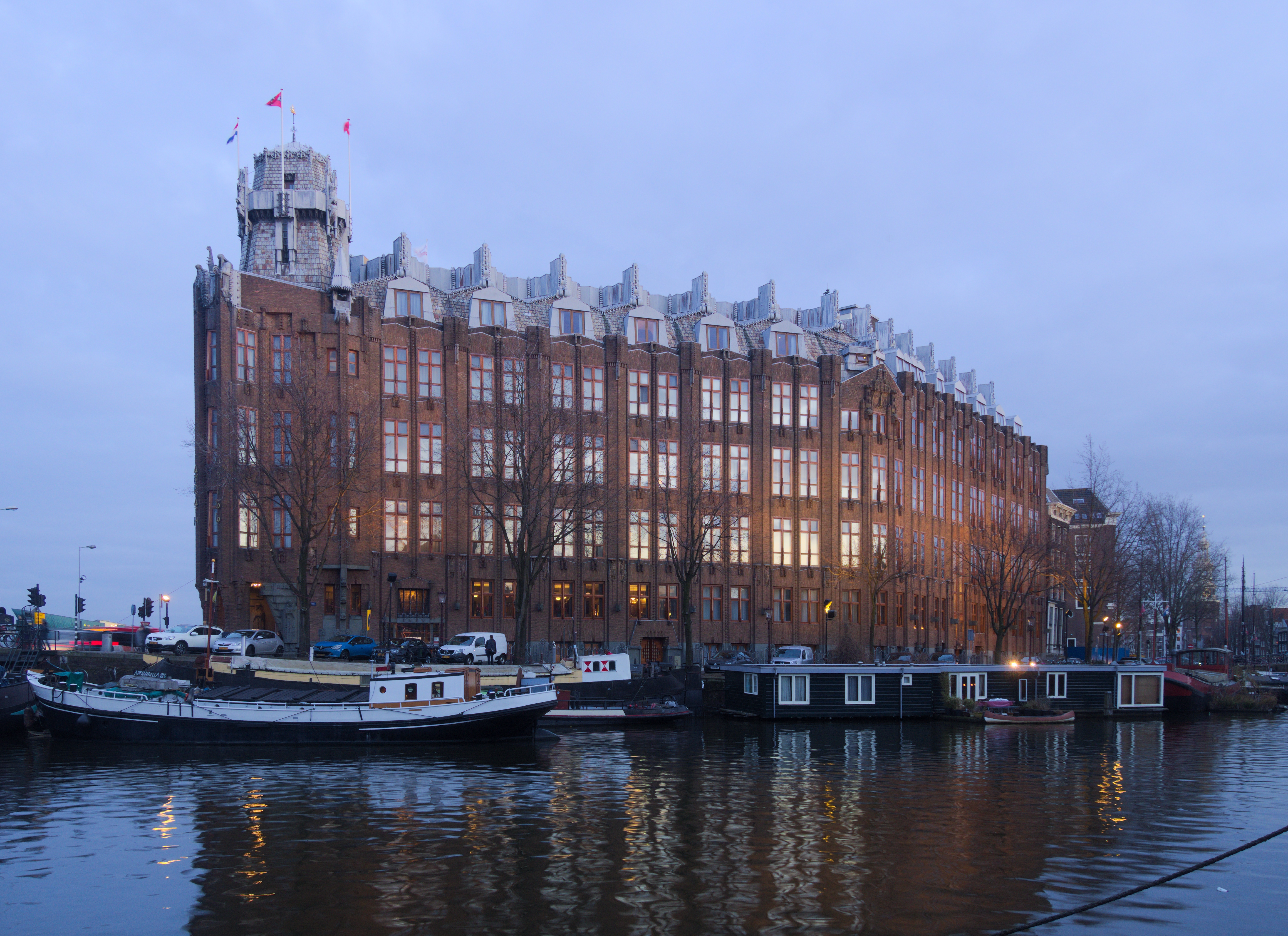 View of Scheepvaarthuis.